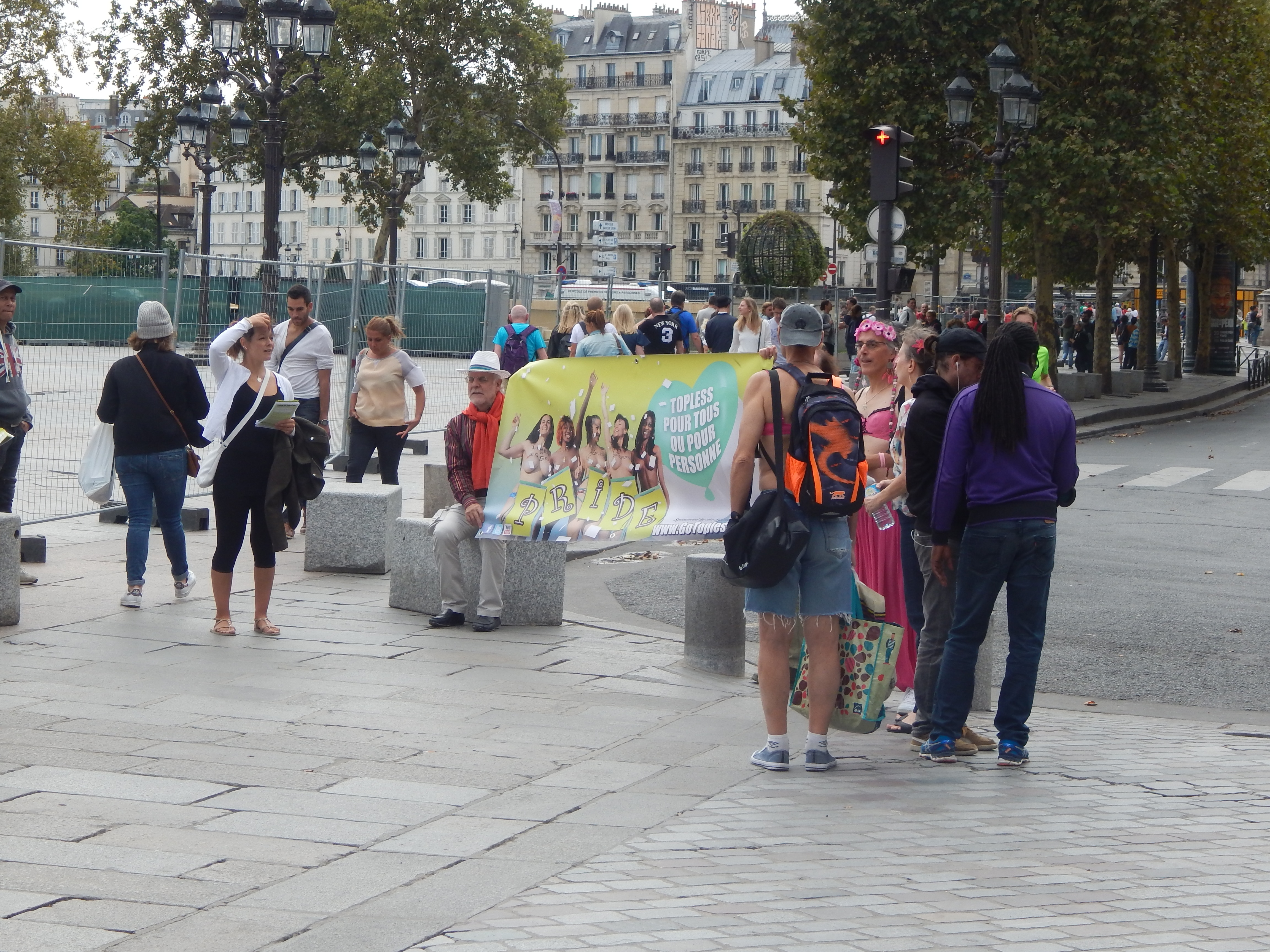 GoTopless Day 2018 Paris